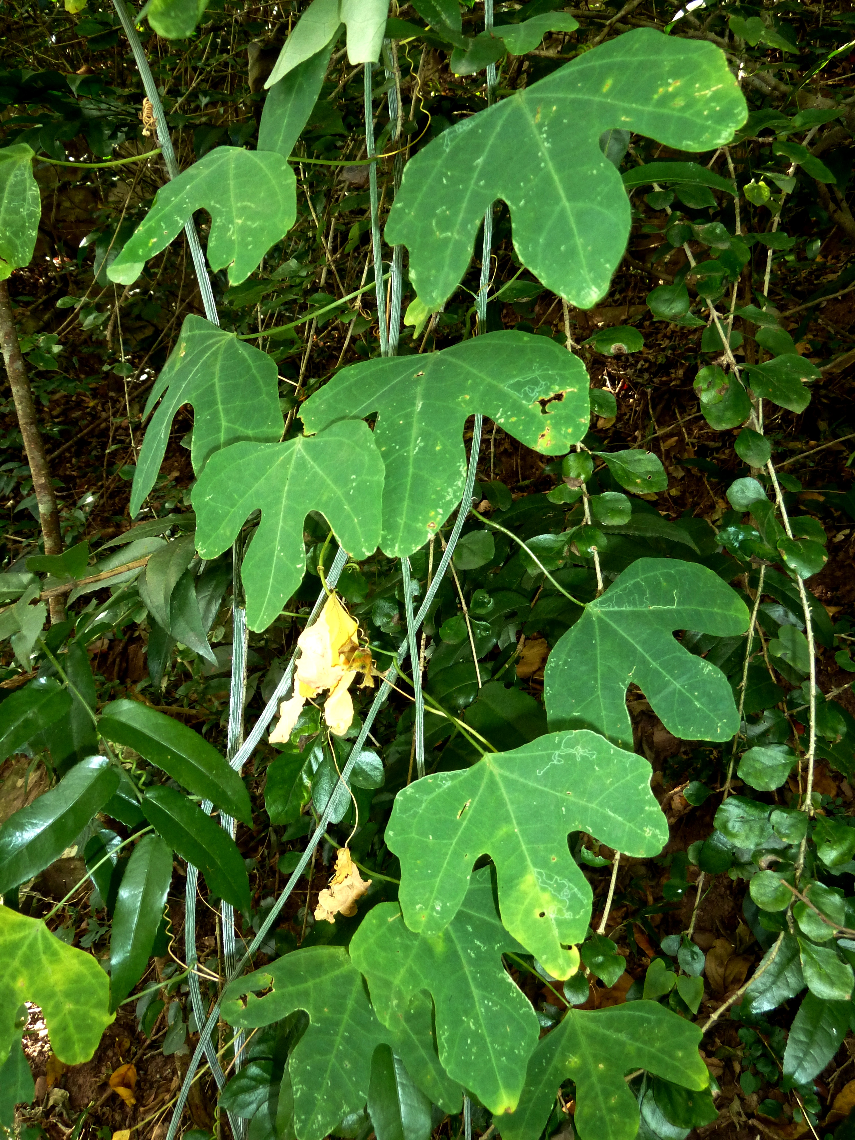 Foliage of a Snake climber in Krantzkloof Nature Reserve, KwaZulu-Natal